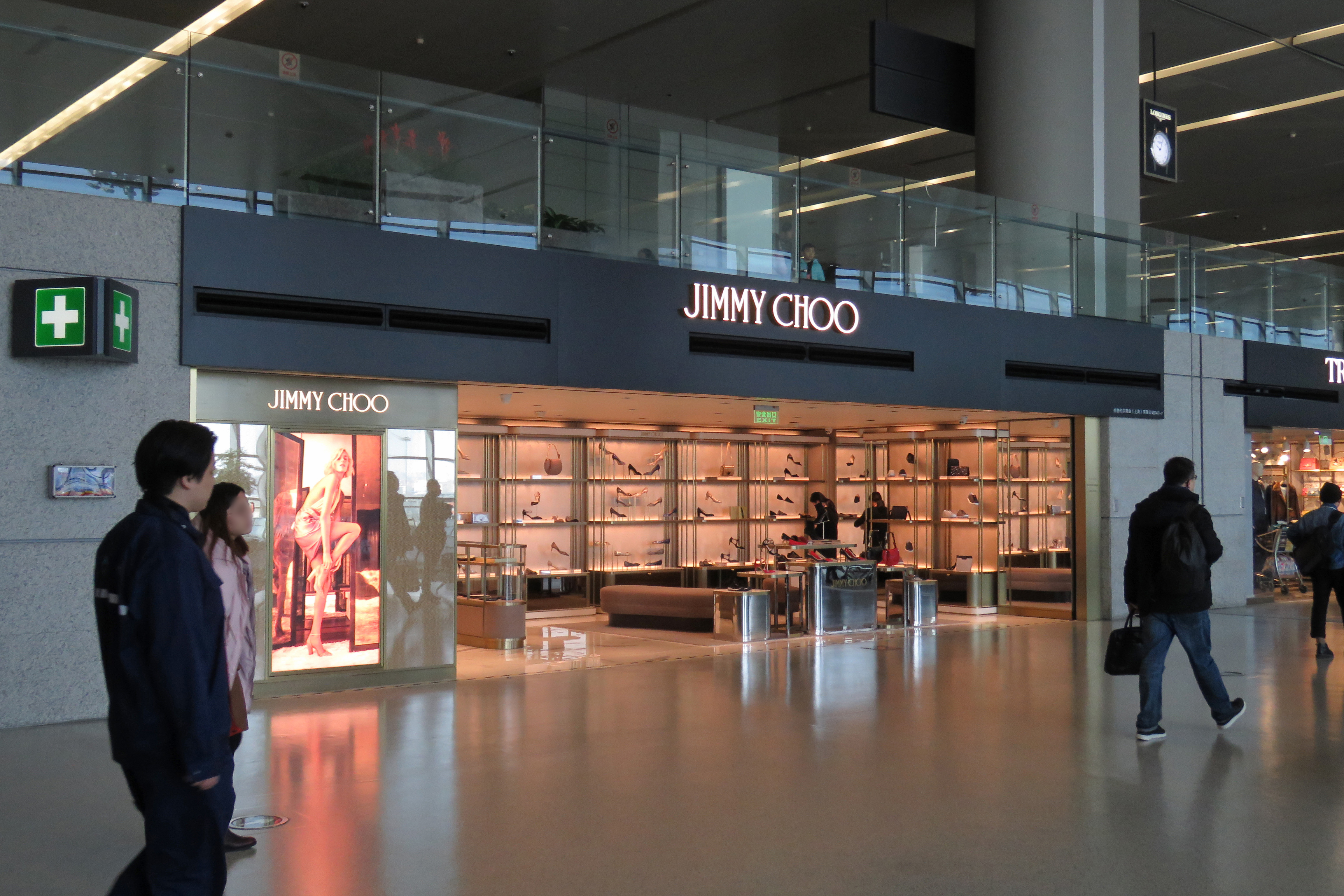 Several boutique stores lie in the center of ZSSS Terminal 2... hey, it's a domestic terminal!